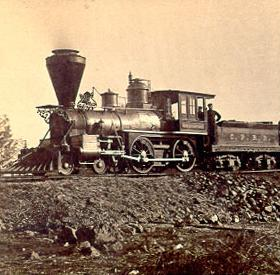 "Governor Stanford" Central Pacific Railroad